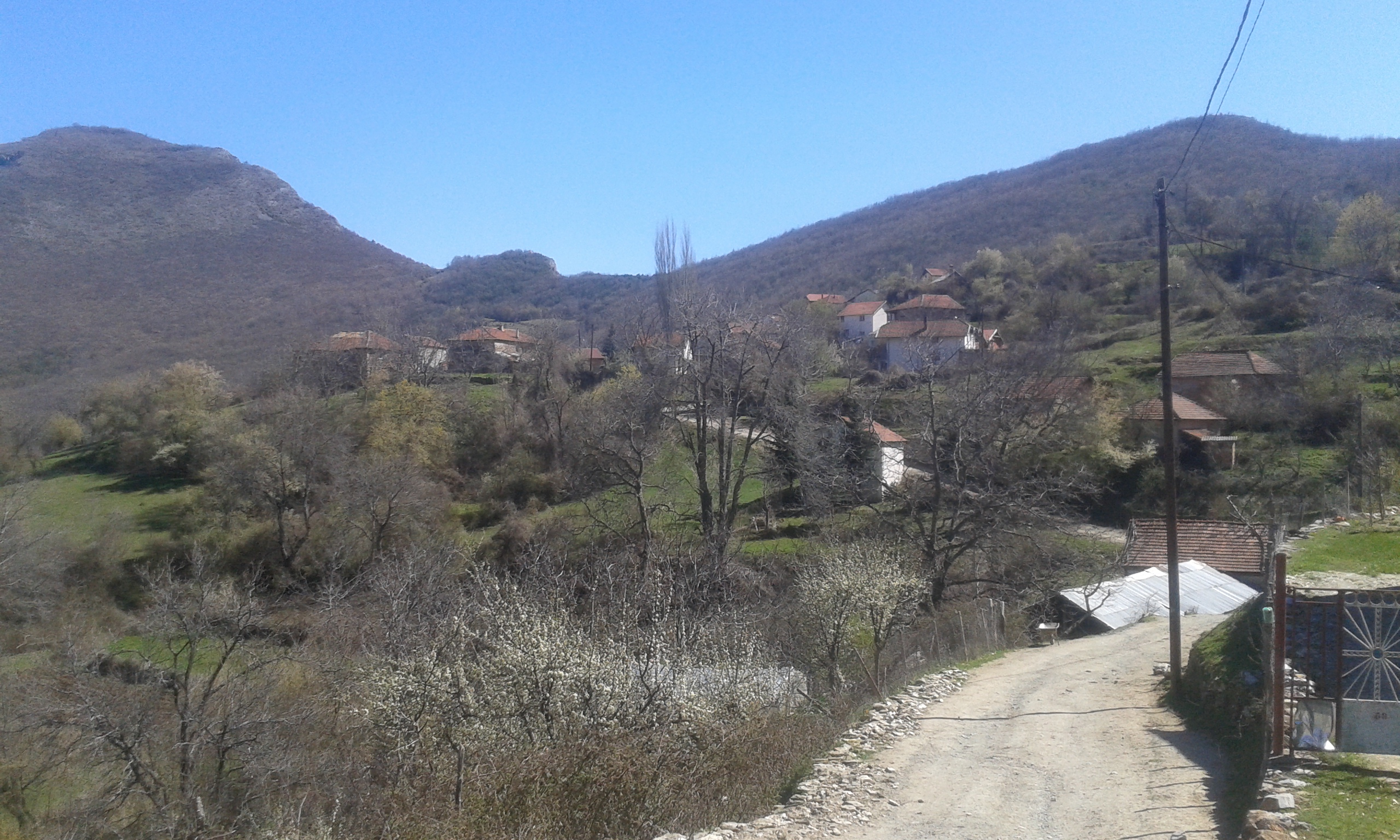 View of the village Lukovica